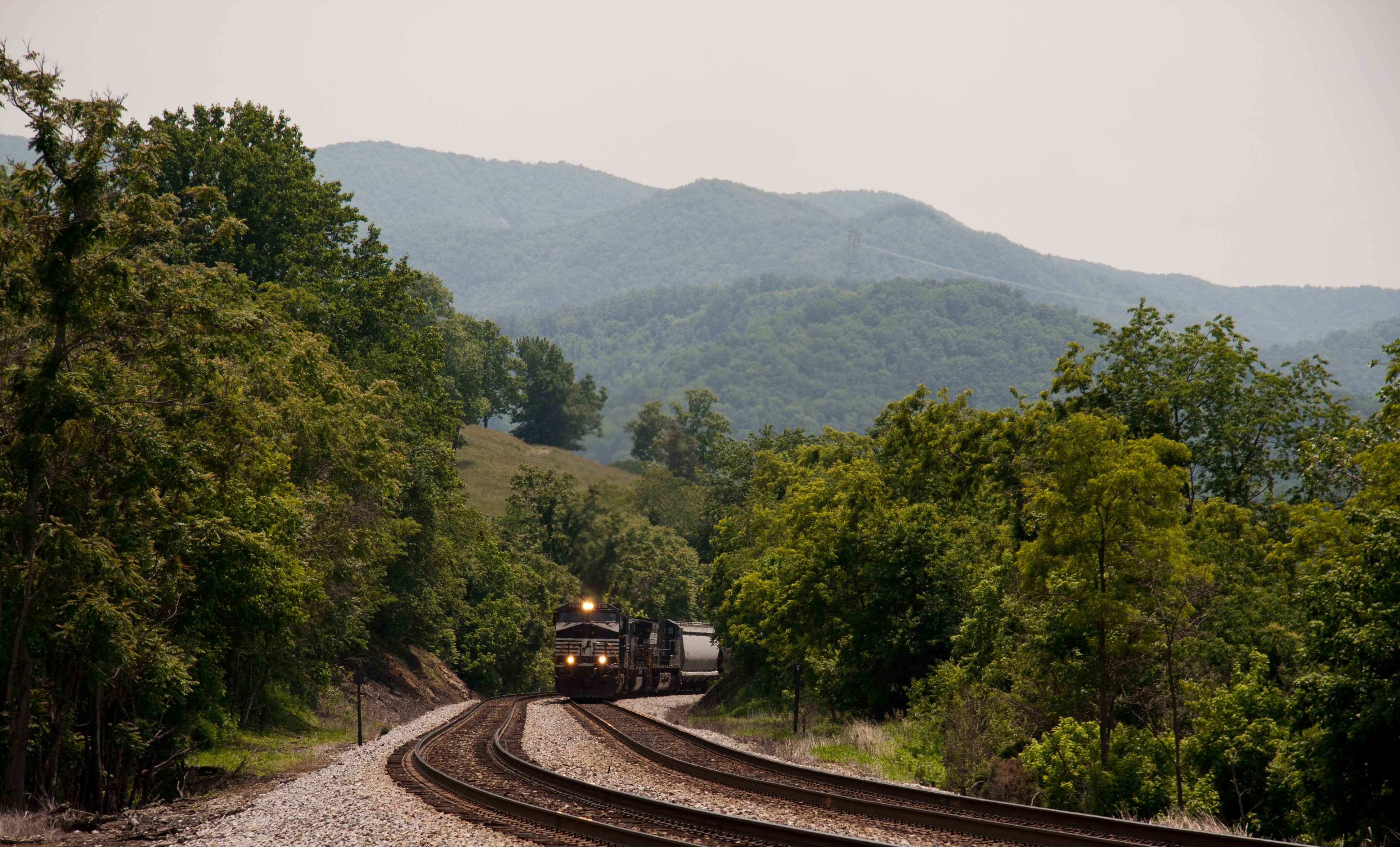 A long mixed freight grinds up the grade in Shawsville, VA on NS's Christiansburg district.